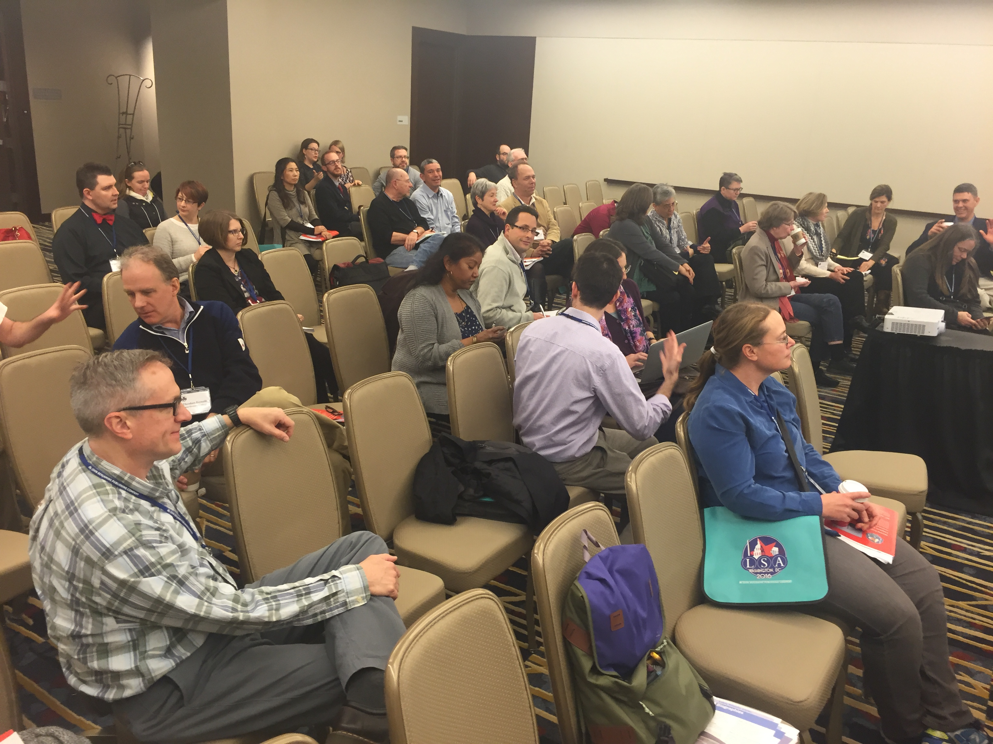 Linguistics department heads attend a short presentation about Wiki Ed at the Linguistic Society of America Conference 2016.